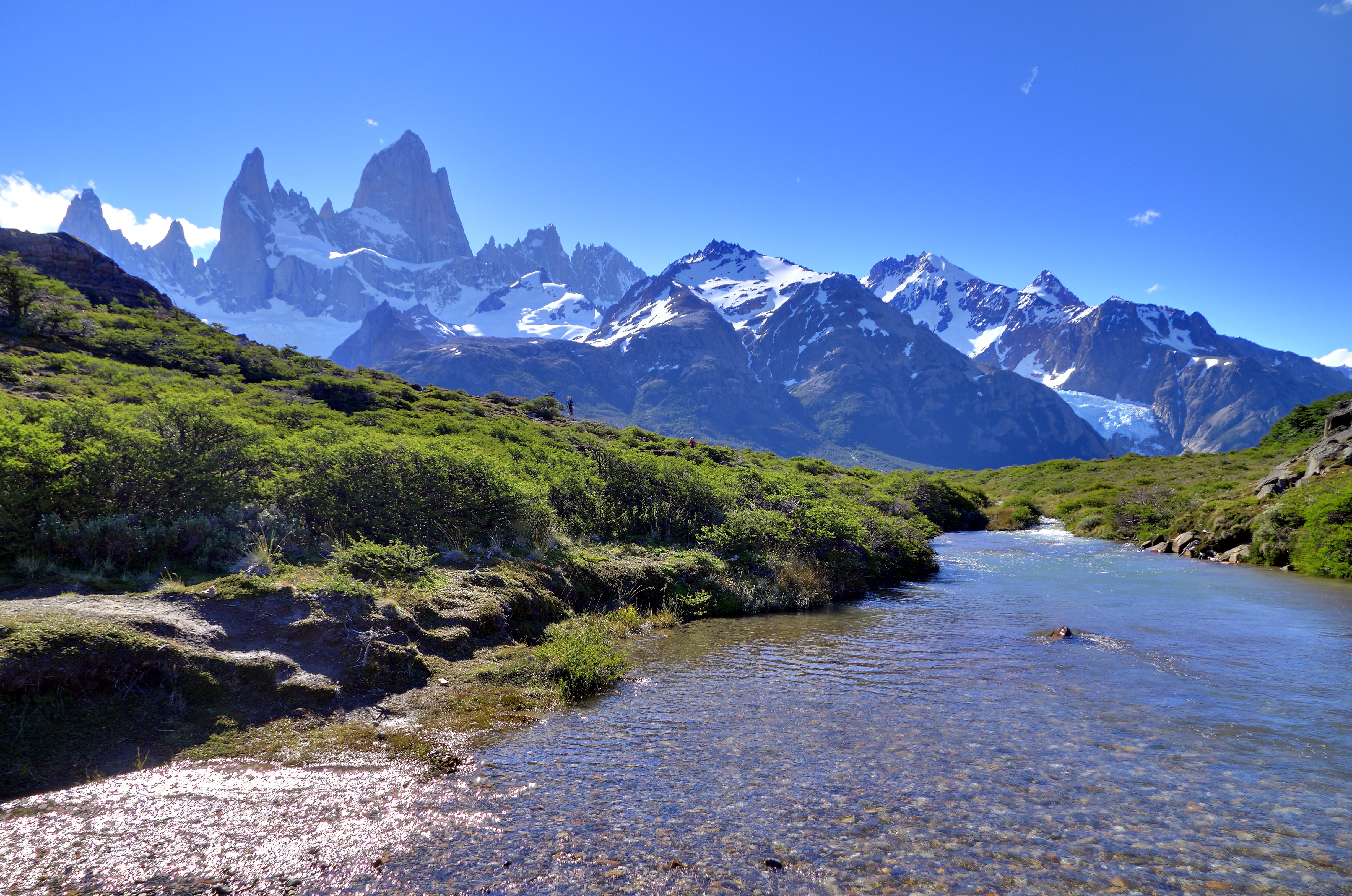 Please, have this description accessible to all by translating it in different languages.